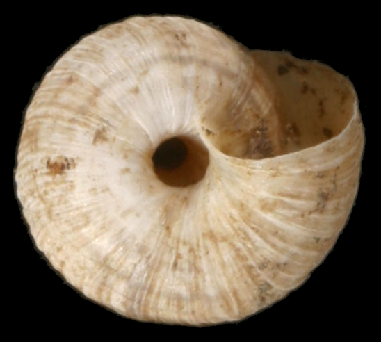 Umbilical view of the shell of Xerocrassa geyeri. Locality: Germany: near Fulda. Date: 01-12-1963.